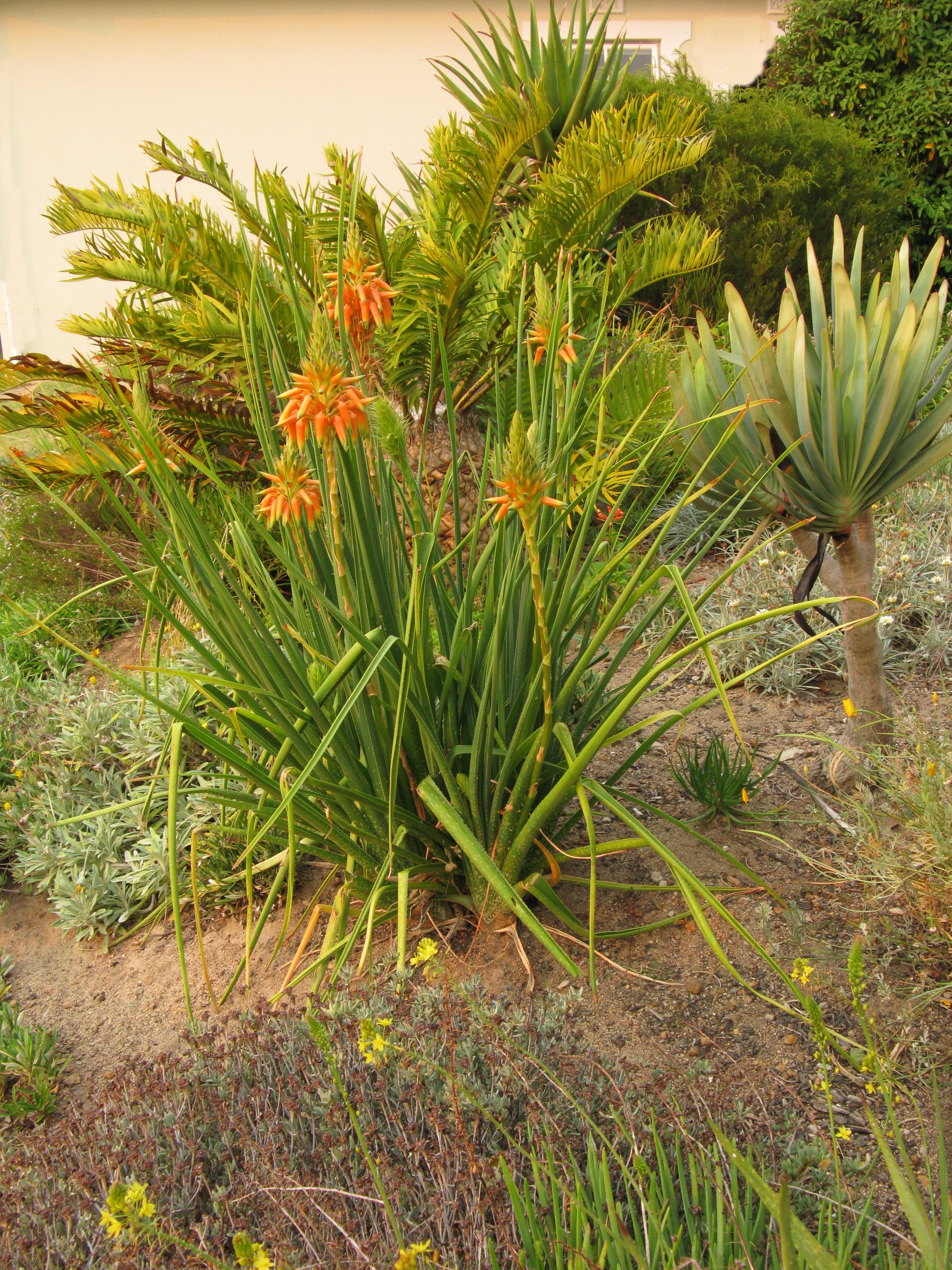 This specimen of Aloe cooperi is in a suburban garden in the Western Cape, though its natural habitat is in North-Western South Africa